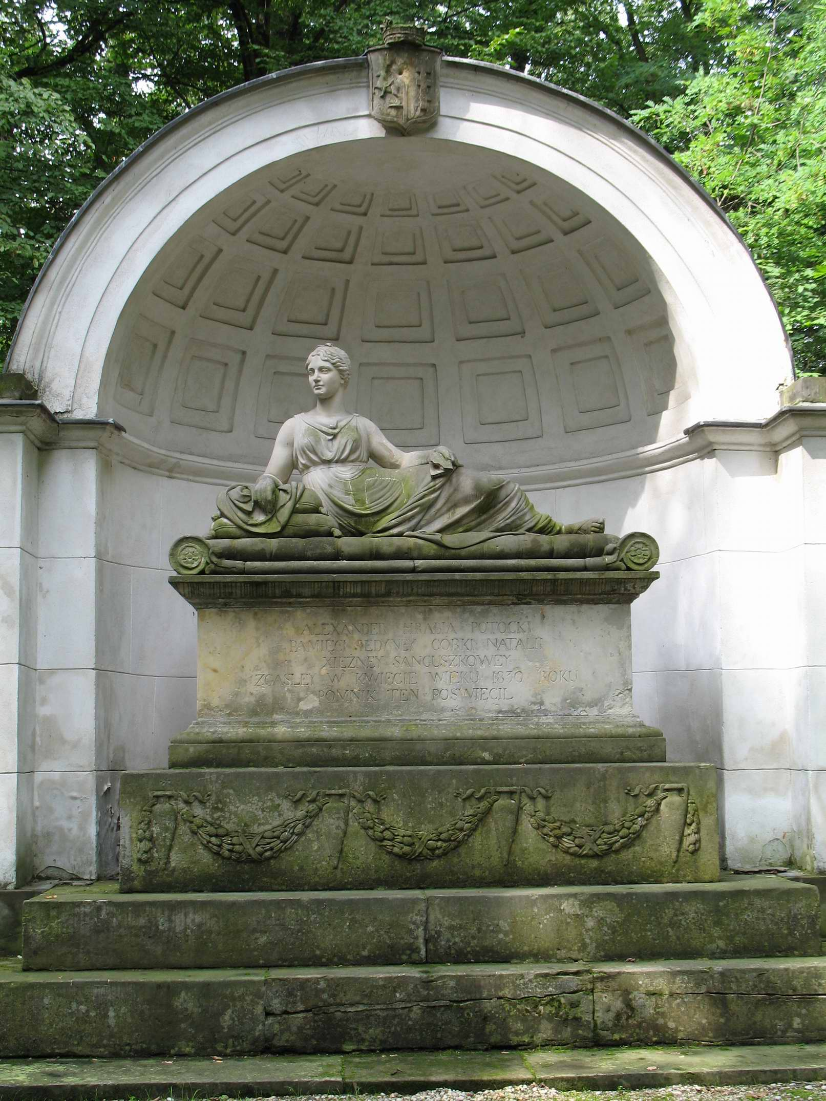 Both sarcophagus and monuement to Natalia Sanguszkowa b. Potocka in Natolin (Warsaw)